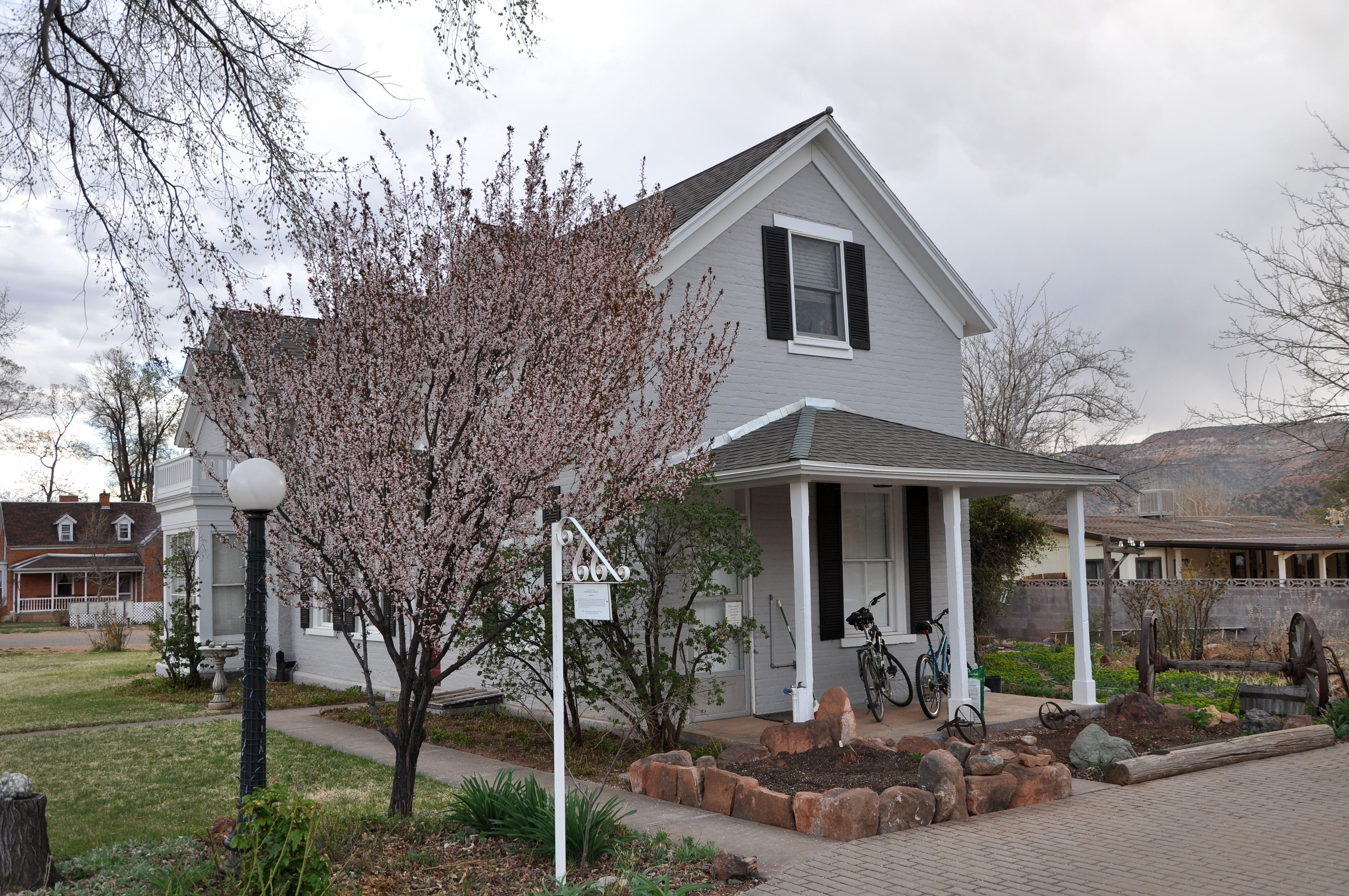 Stewart-Woolley House in Kanab in the U.S. state of Utah.